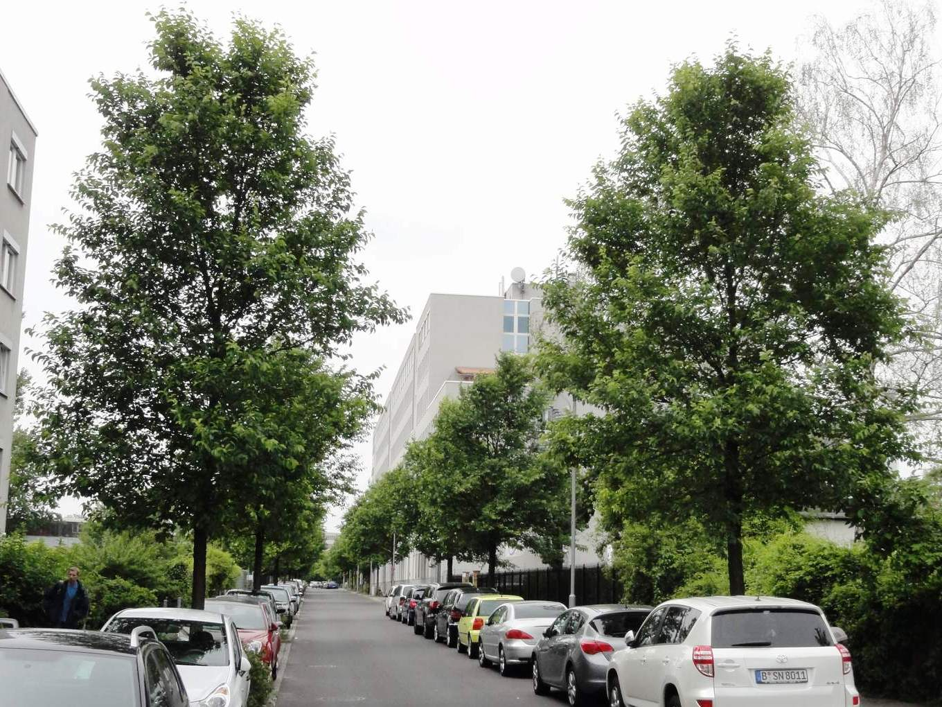 Photo of hybrid cultivar elm 'Rebona' lining a Berlin street.